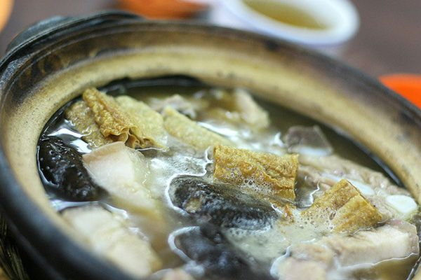 Bak Kut Teh: chinese style pork cooked in tea and herbs